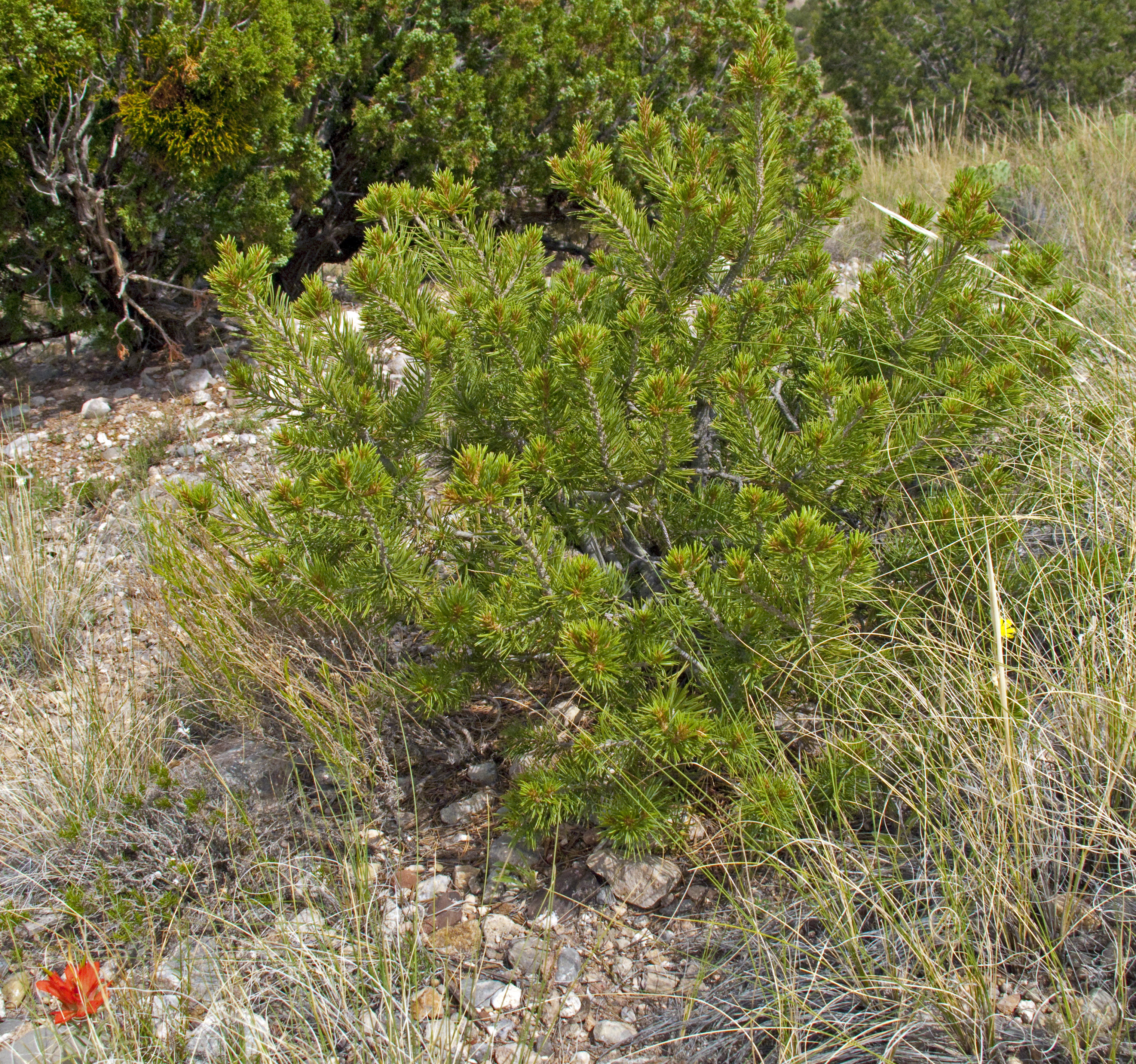 Young Pinus edulis. Placitas, New Mexico 35°19'N 106°27'W, 1800m altitude.